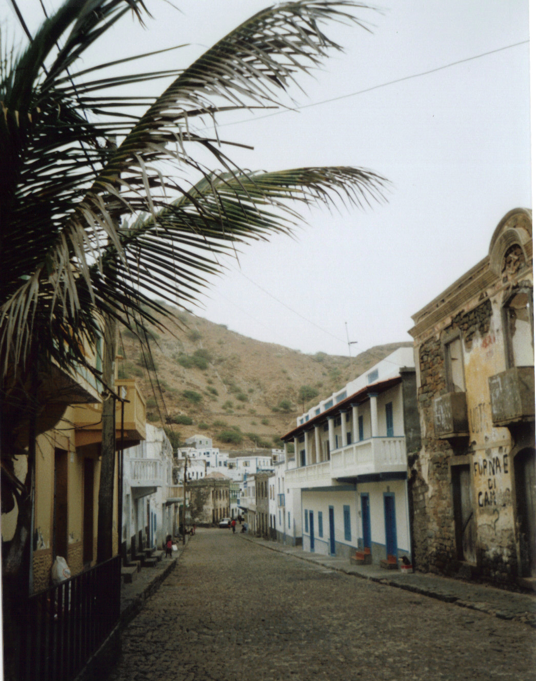 Main Street of Furna, Ilha Brava, Cabo Verde.